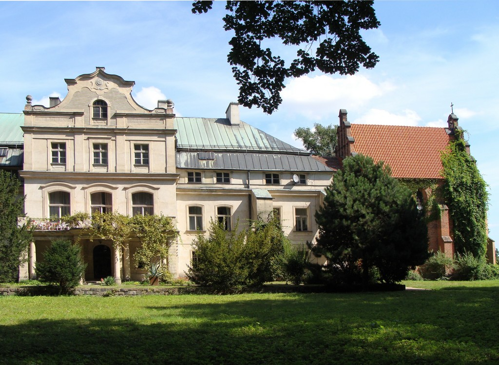 Turew (Greater Poland Voivodeship), Chłapowski Palace.